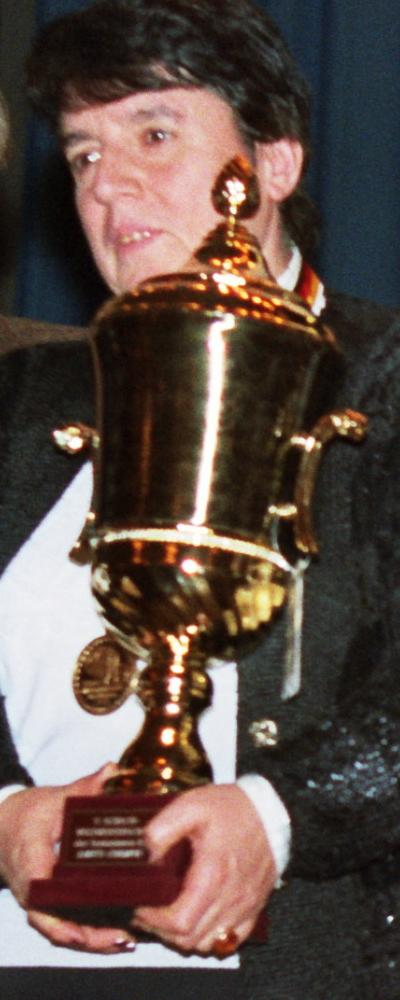 Nona Gaprindashvili, Senior Chess World Championship 1995 at Bad Liebenzell, Photographer Gerhard Hund.